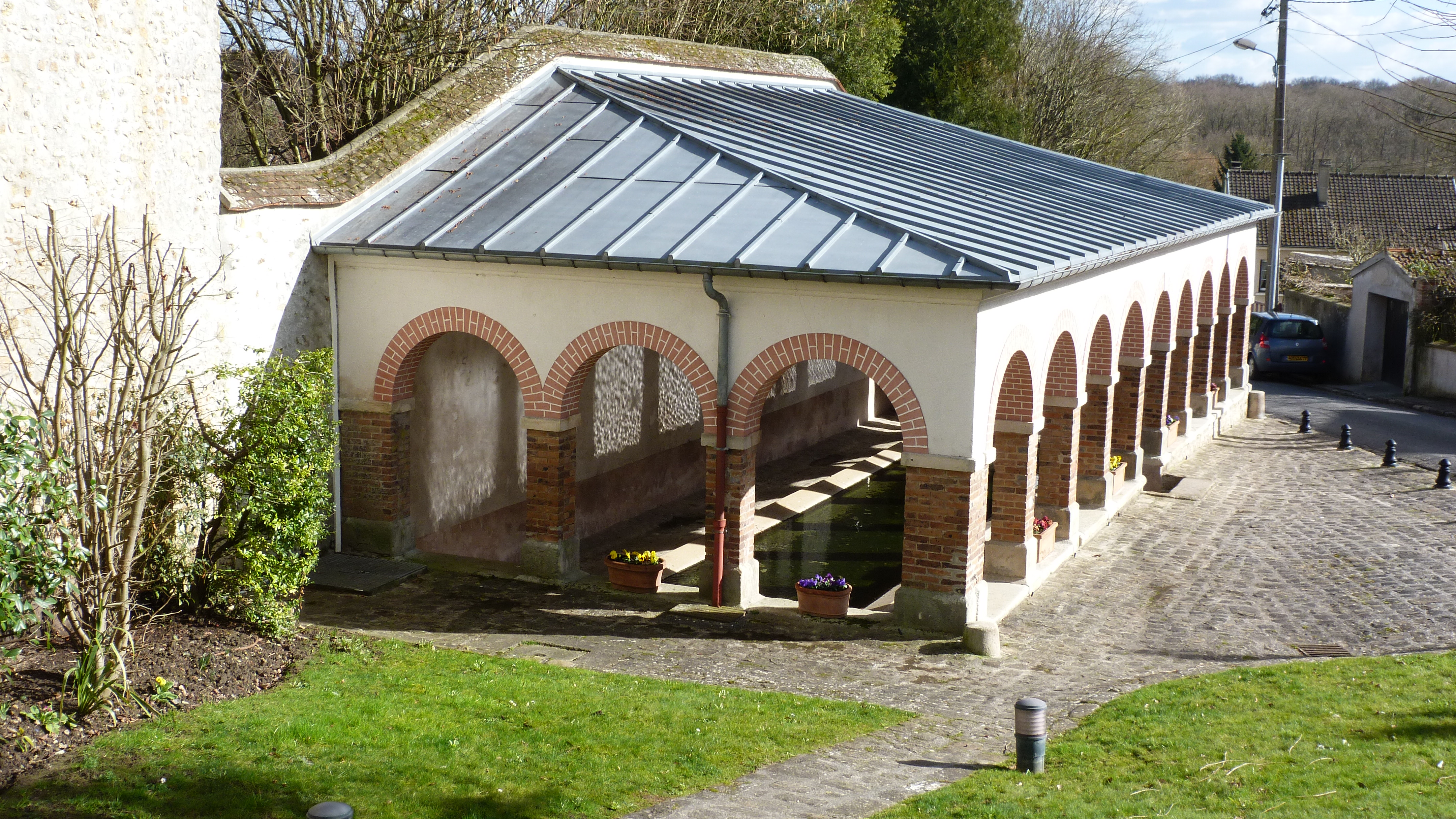 Lavoir sur la commune française d'Ozouer-le-Voulgis, vue d'extérieur, prise en Janvier 2015